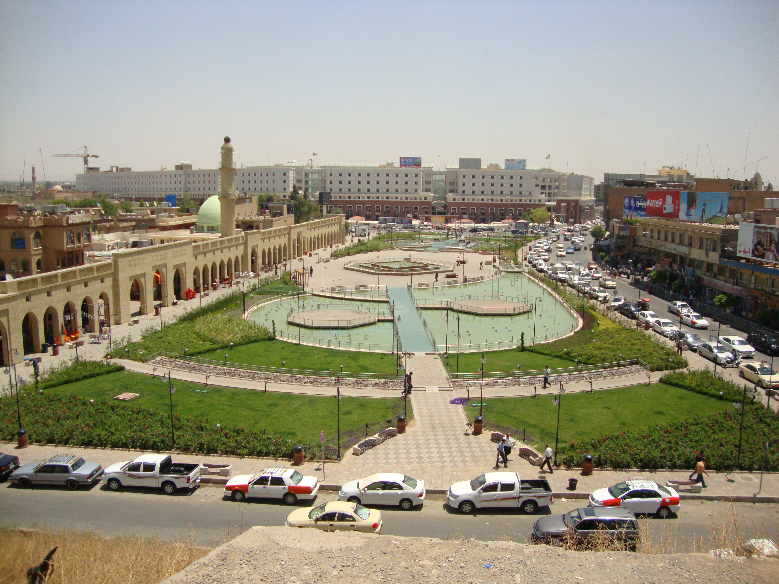 City Park, in the center of Hewler city and infront of Hewler Citadel.